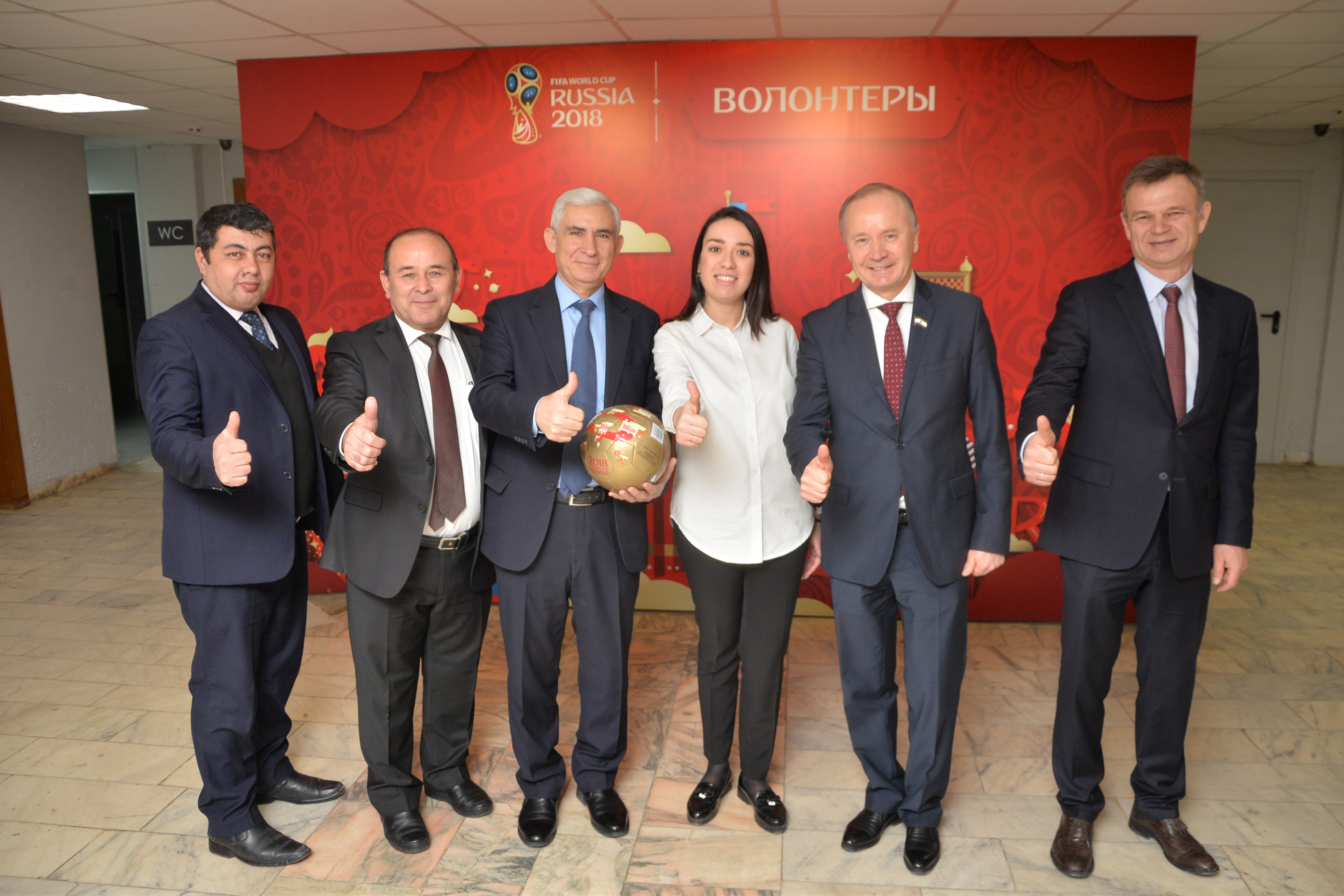 international